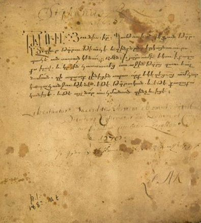 Armenian document writen in Lviv